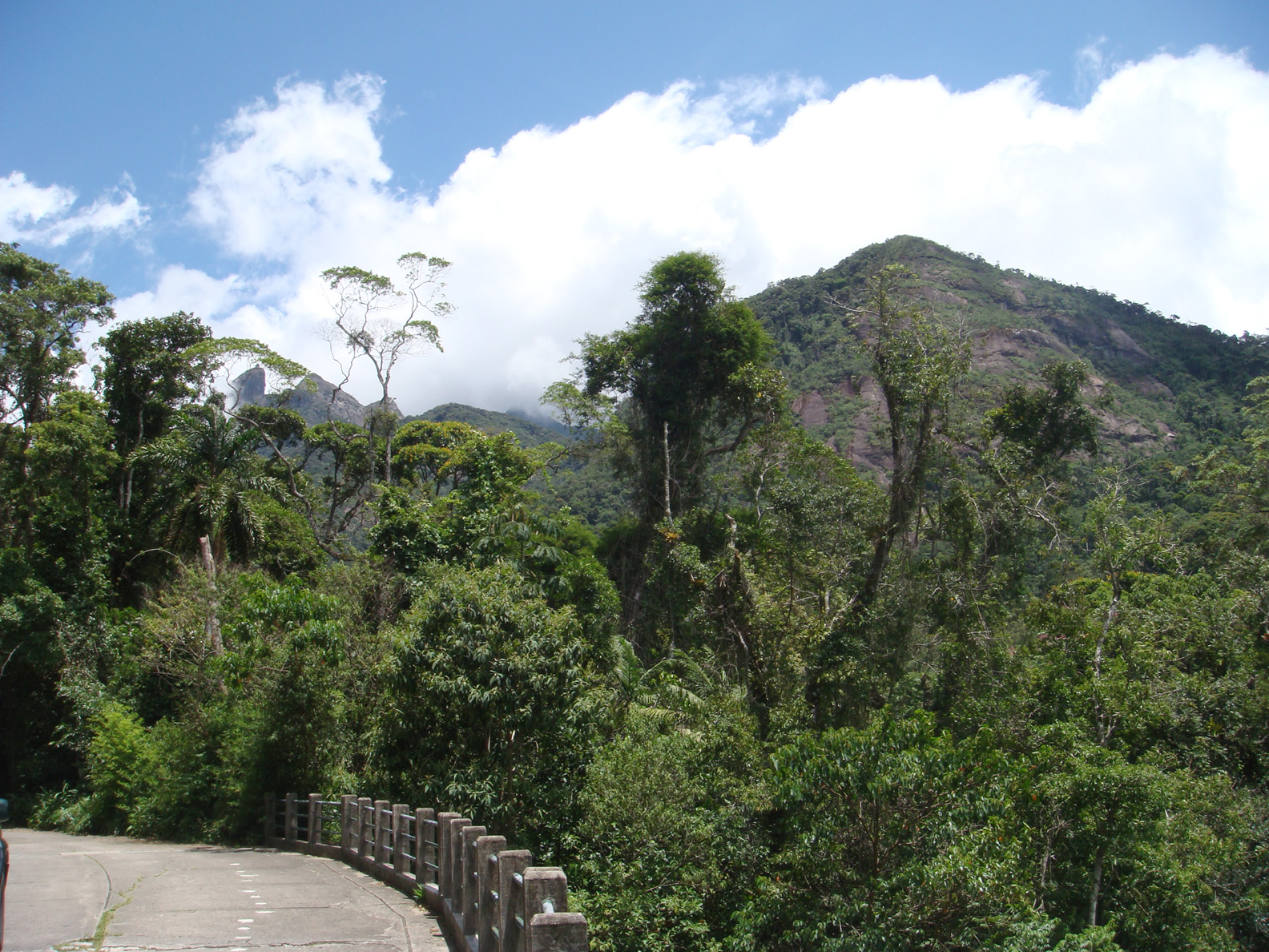 View of Serra dos Órgãos National Park (Parque Nacional da Serra dos Órgãos), Teresópolis, Brazil